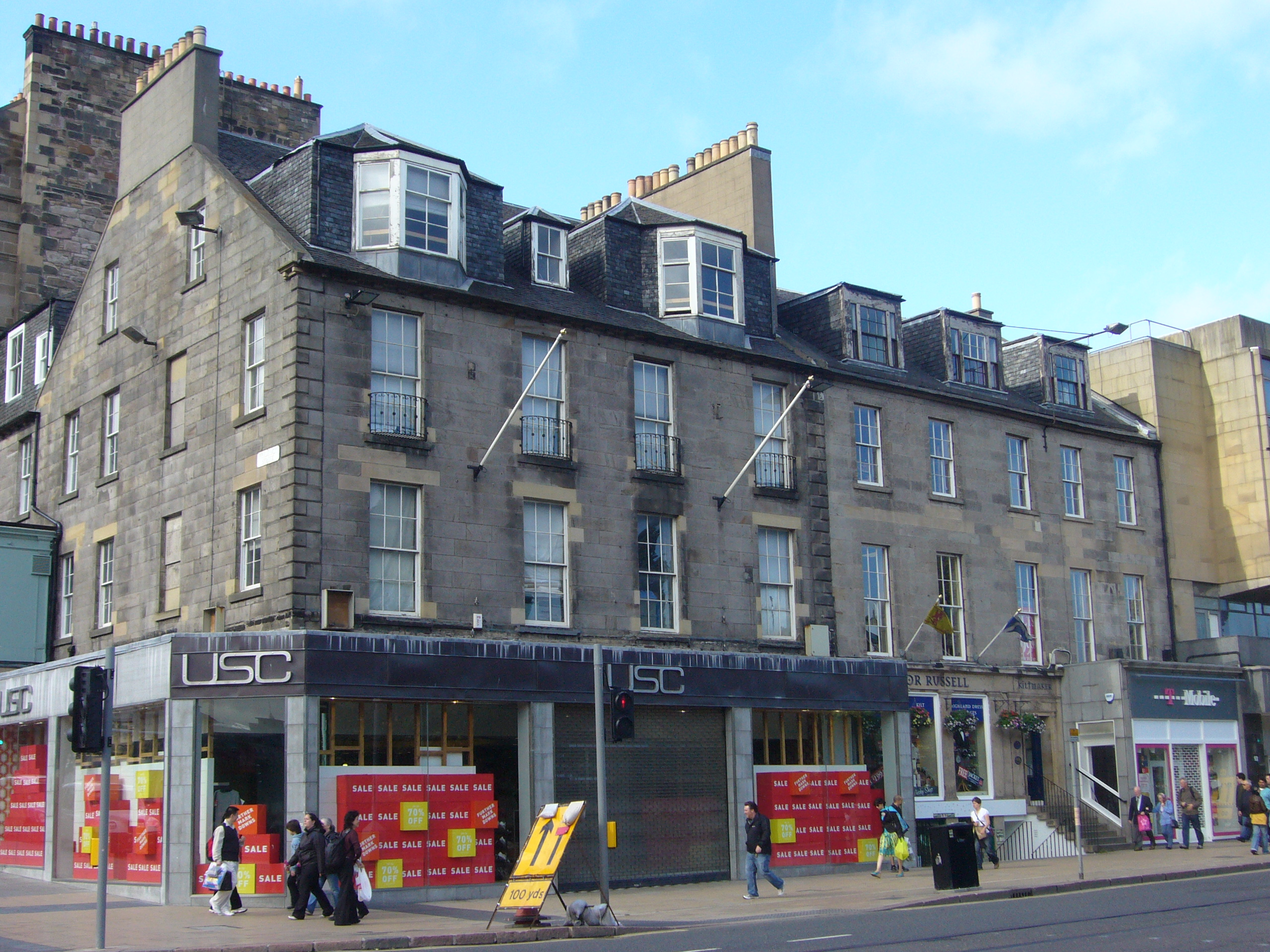 Some surviving buildings give a flavour of the original architecture of Princes Street when it was built in the late 18th century. In 2010 when this photograph was taken, the building on the corner of the block (97-98 Princes Street) was occupied by USC. the next building was occupied by Hector Russell (96) and T-Mobile (94).